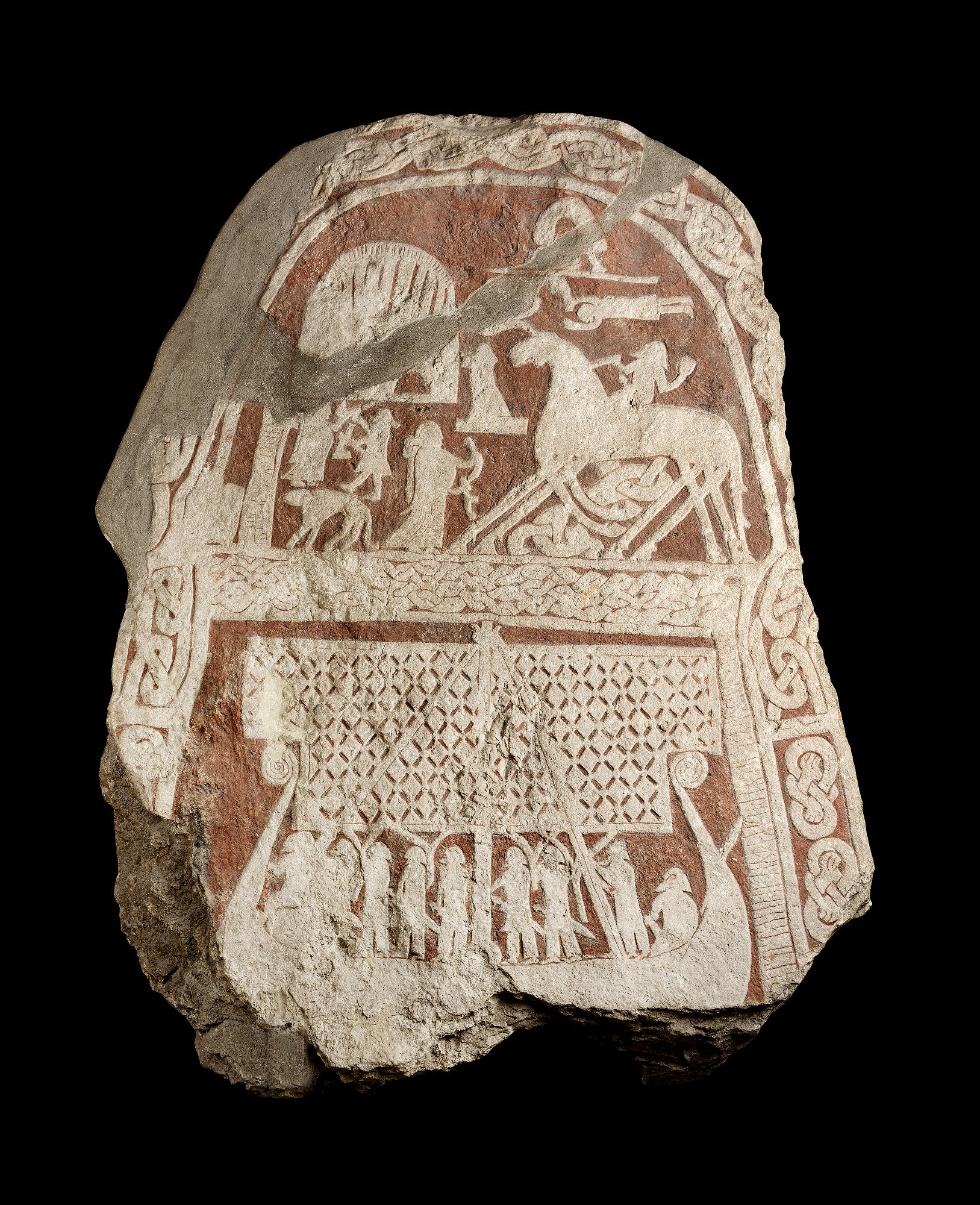 Picture stone